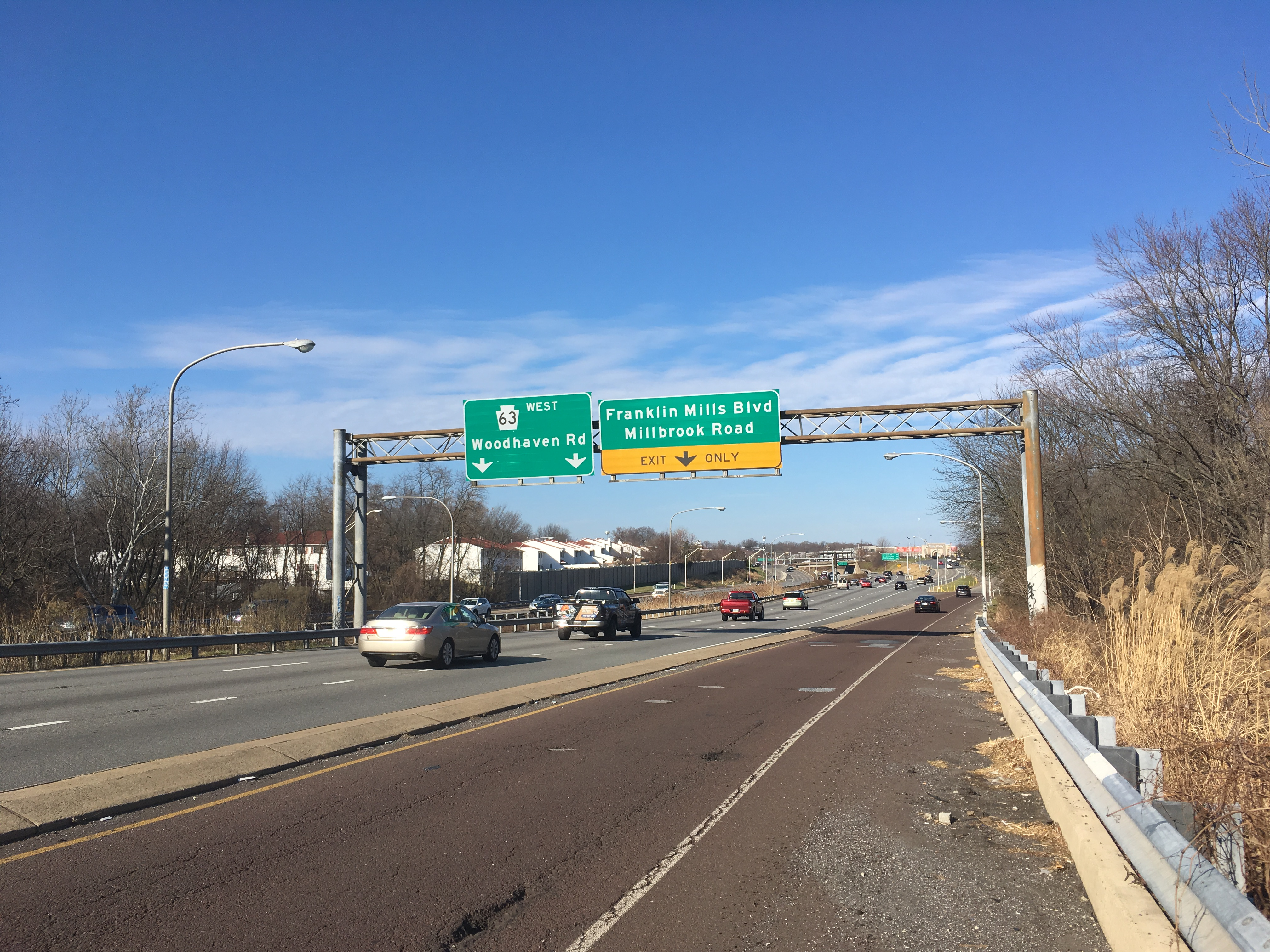 Westbound Pennsylvania Route 63 (Woodhaven Road) at the interchange with Franklin Mills Boulevard/Millbrook Road in Philadelphia, Pennsylvania